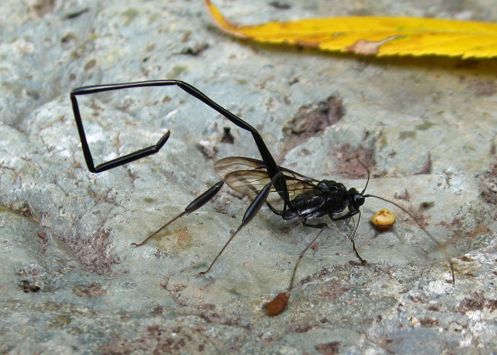 Pelecinus polyturator wasp